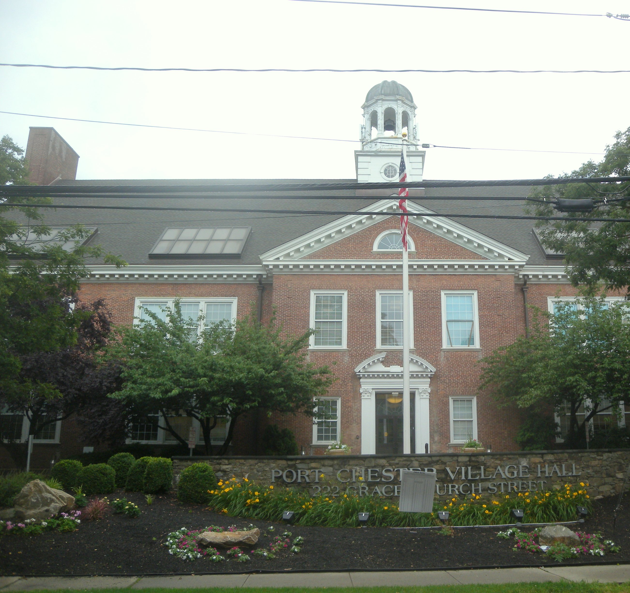 Looking west from Pearl Street at Port Chester Village Hall on a rainy day.